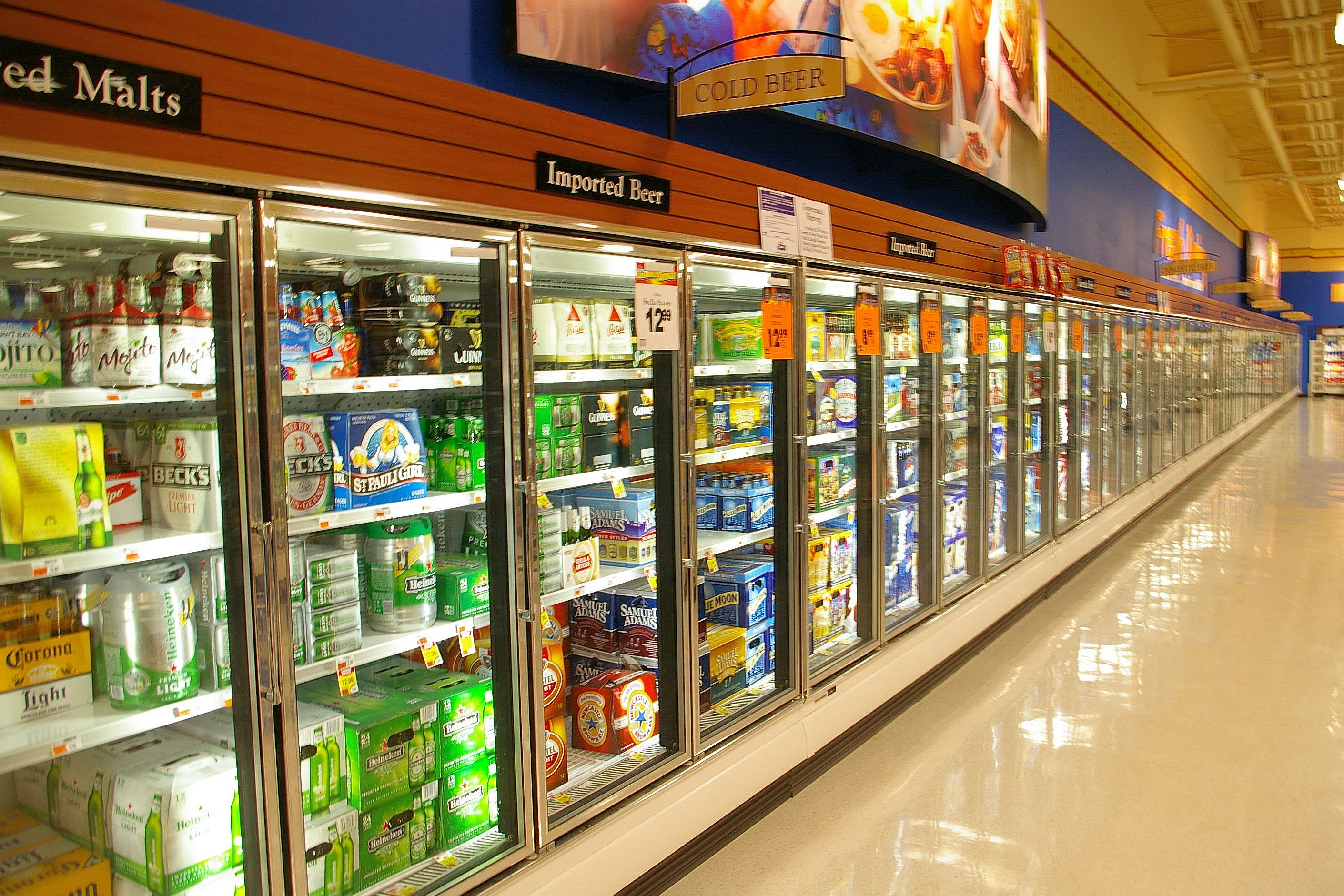 Refrigerator